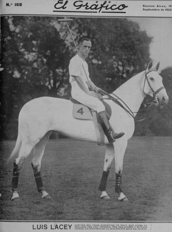 Luis Lacey, former captain of Team Argentino de Polo.